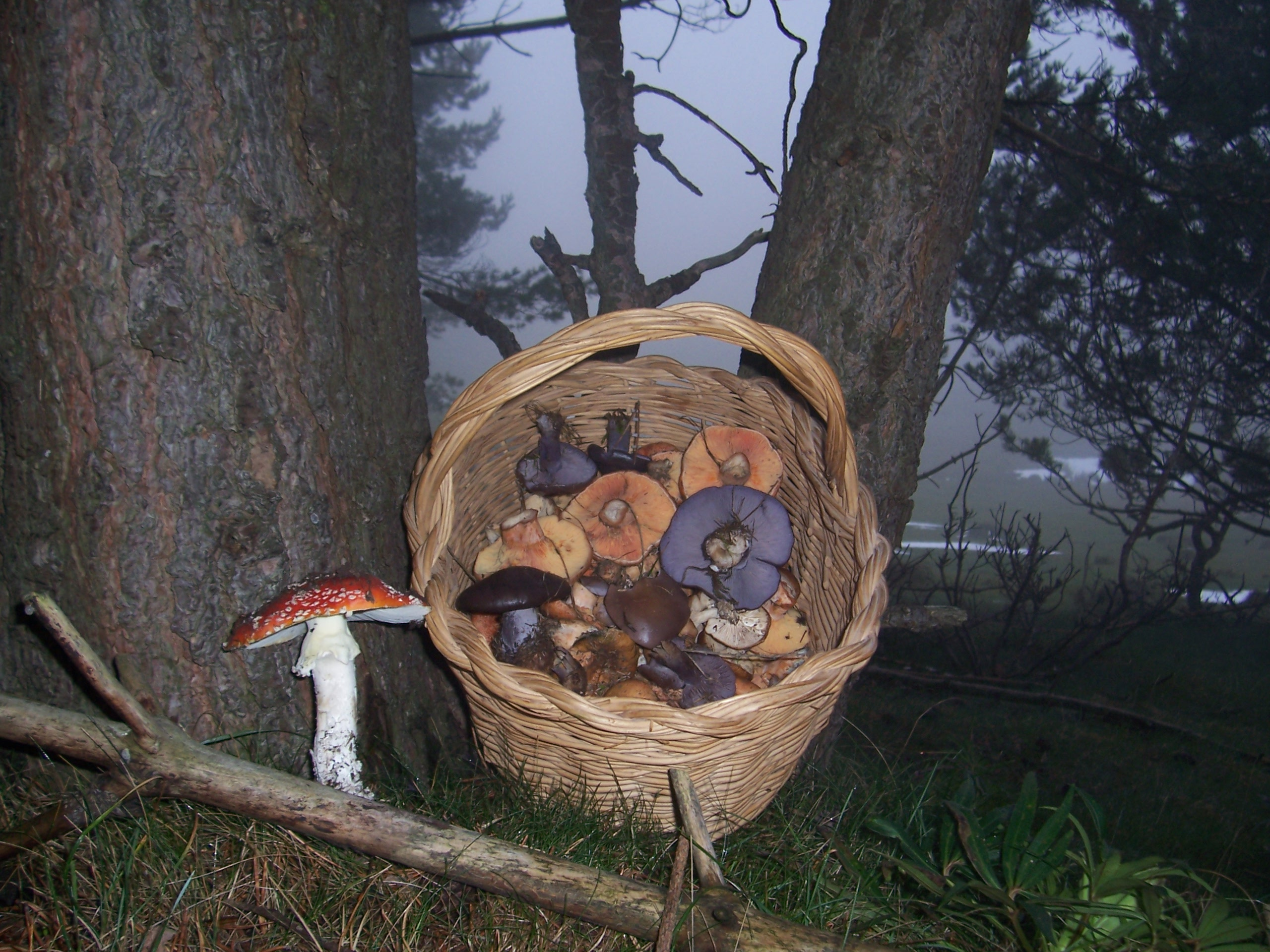 Basket of Mushrooms in Moncayo Natural Park in Aragon, Spain.